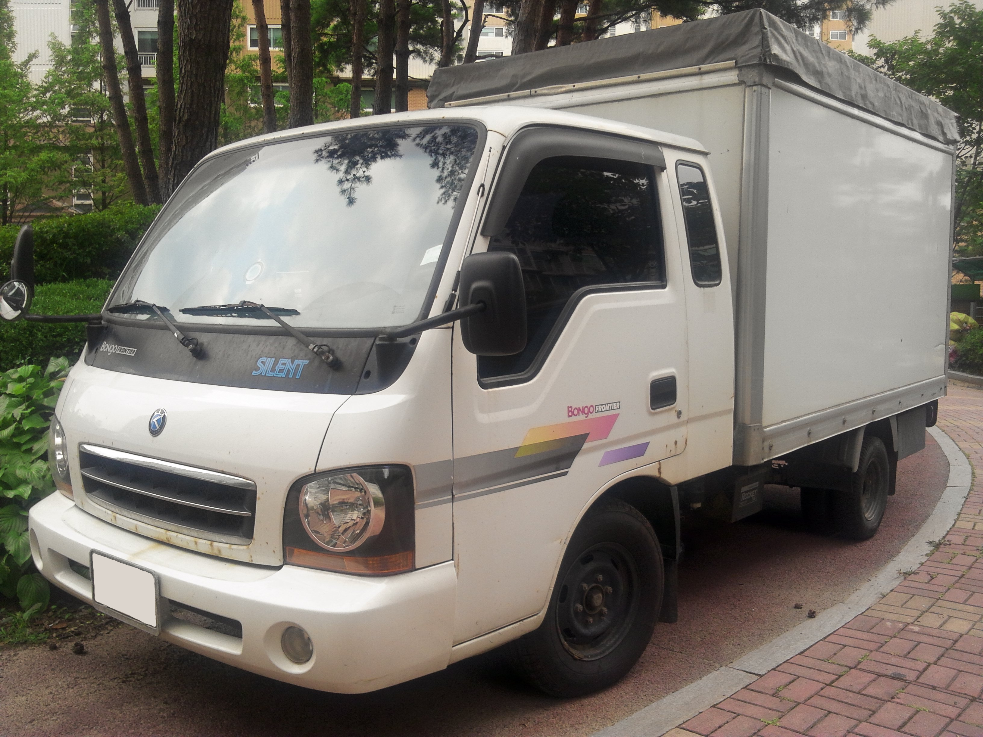 Front-left side of Kia Bongo Frontier.